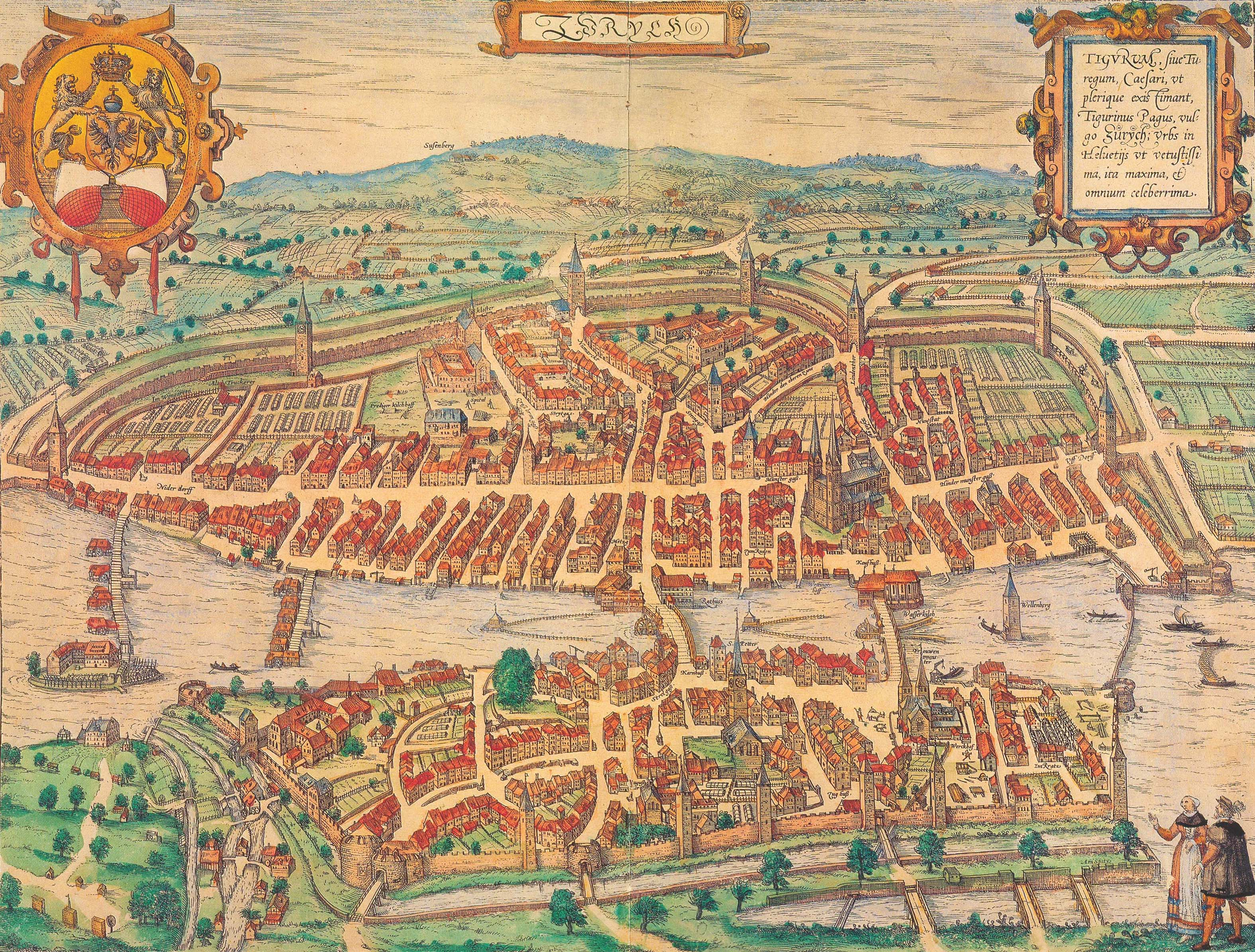 The city of Zurich on an etching of Georg Braun and Franz Hogenberg, 1581. Original size: 48 x 36 cm